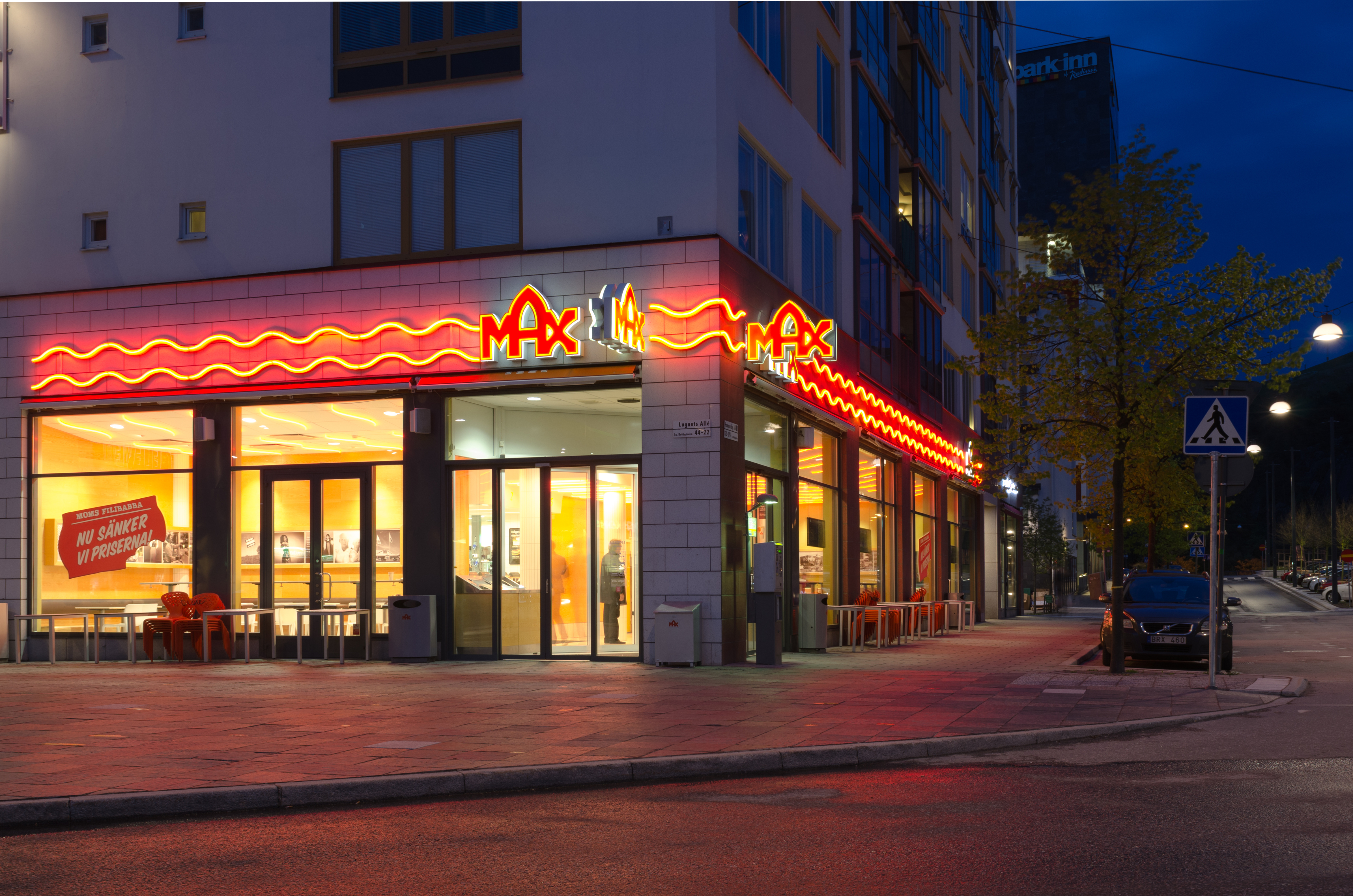 Max in Hammarby sjöstad. Max is a fast food corporation which was founded by Curt Bergfors in Gällivare, Sweden in 1968. Until the 1980s, Max was the largest hamburger restaurant chain in northern Sweden, with only a single restaurant outside of Norrland (on Drottninggatan, Stockholm). This changed during the 1990s, when they expanded to become a nationwide fast-food chain.